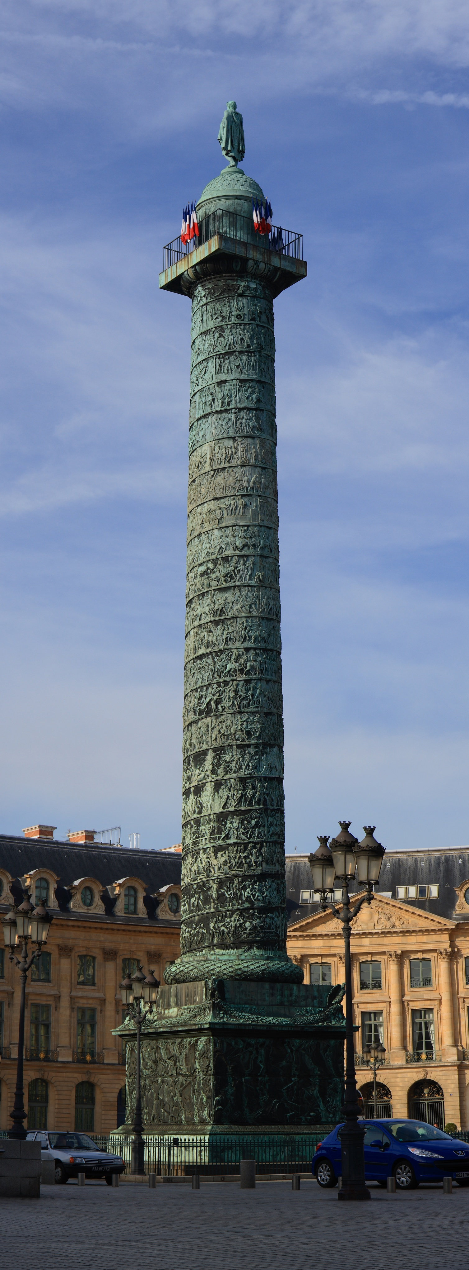 Rear side of the Vendôme column, on the place Vendôme, in Paris.